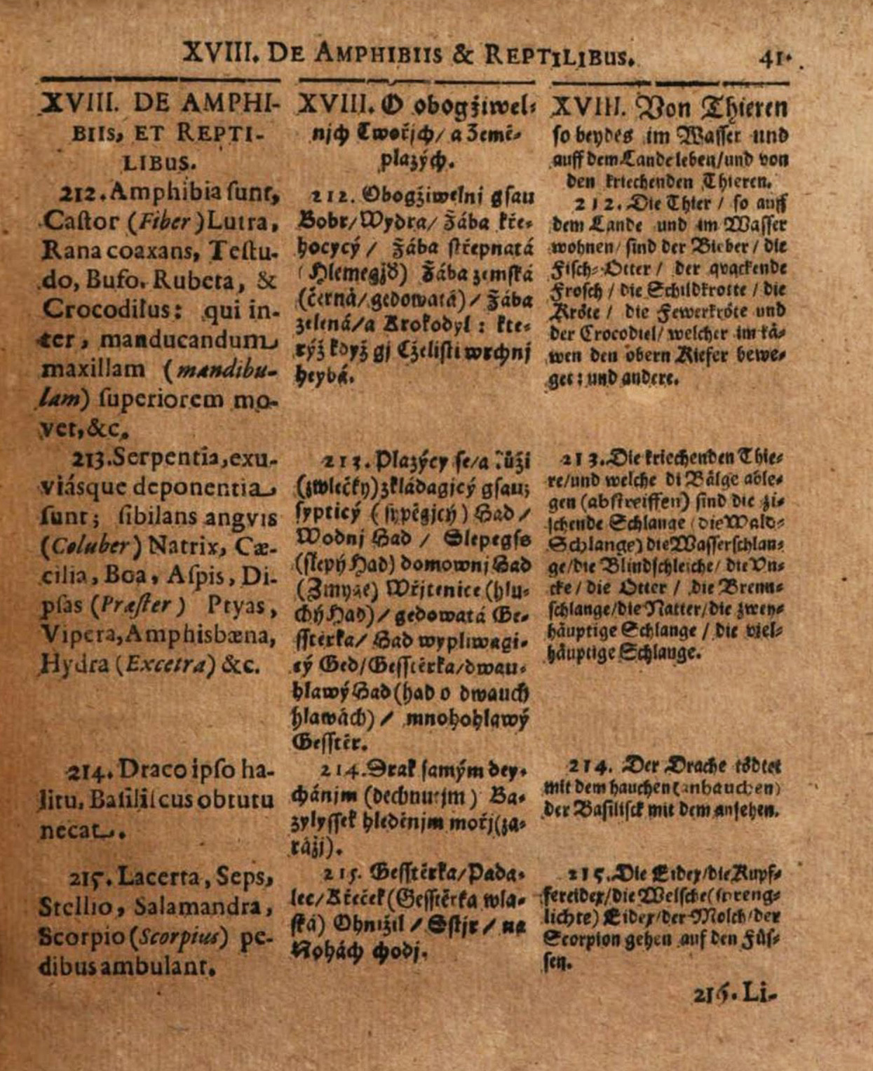 Janua linguarum reserata aurea by John Amos Comenius. Latin-czech-german edition from 1669, page 41.